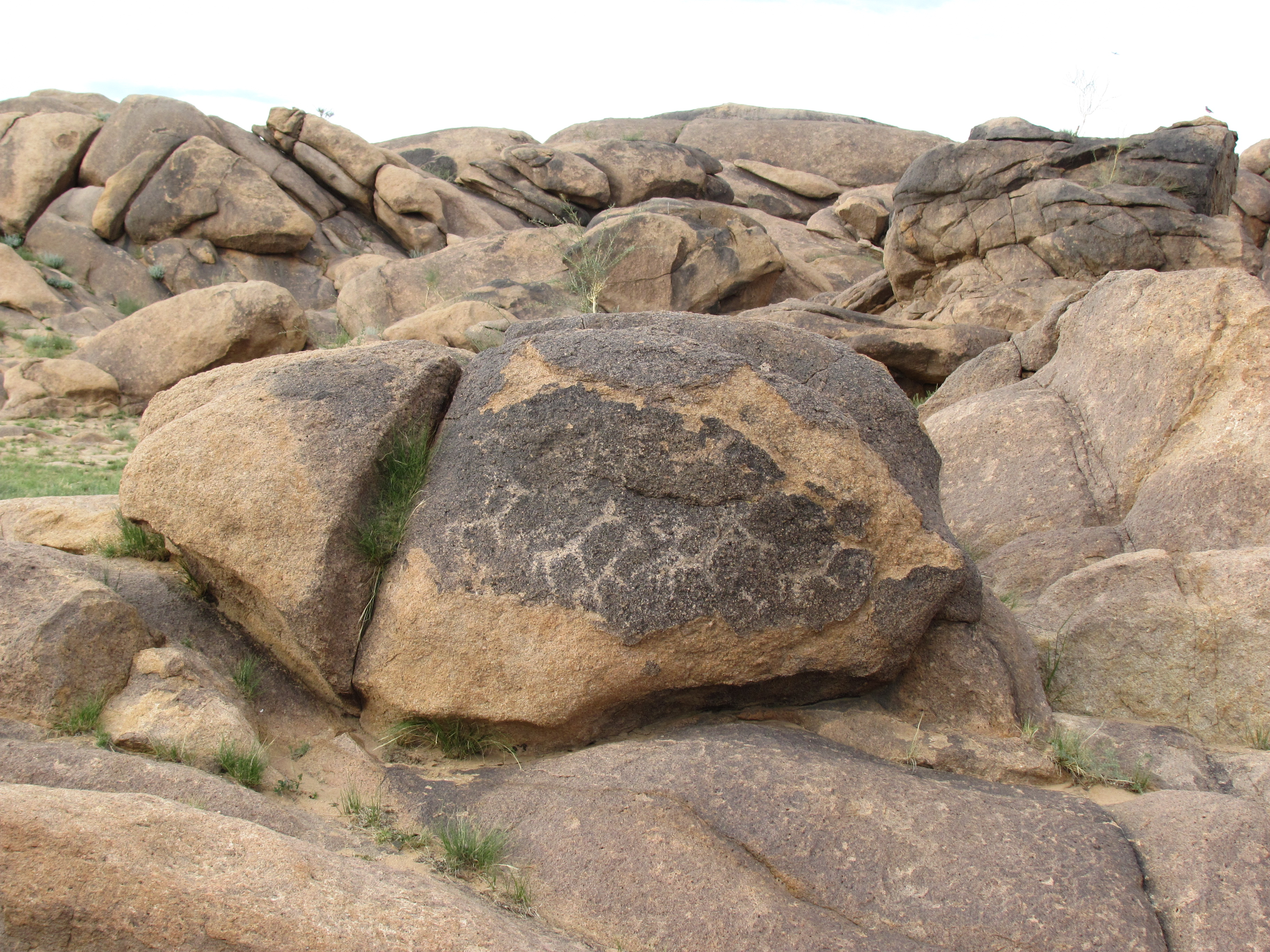 Rock paintings near Guchin Us, Övörkhangai Aimag, Mongolia.